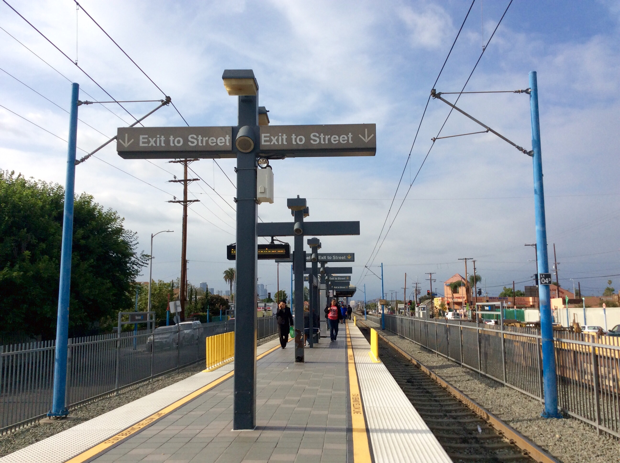 The platform view of Vernon Station.